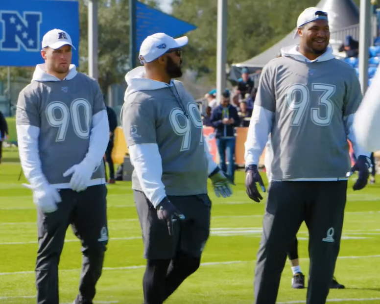 Calais Campbell, Jurrell Casey, and TJ Watt